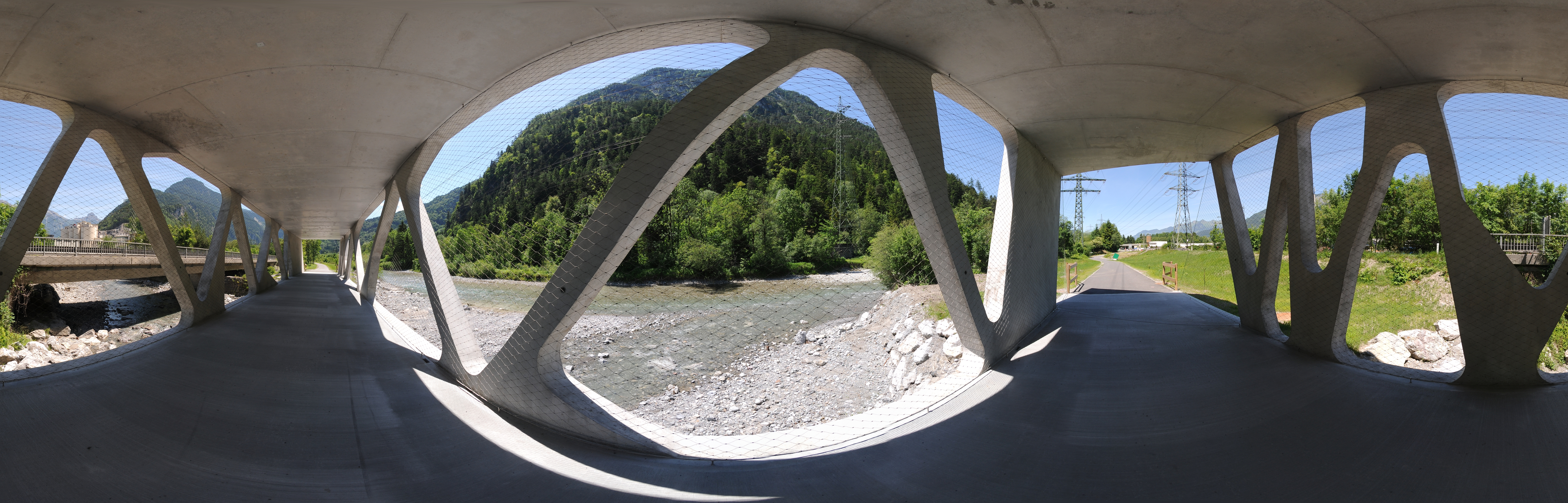 360 ° panorama in the bicycle bridge over the Alfenz in Lorüns. Built in 2010, according to plans by the architects-marte . NOTE: This image is a panorama consisting of multiple frames that were merged or stitched in software. As a result, this image necessarily underwent some form of digital manipulation. These manipulations may include blending, blurring, cloning, and colour and perspective adjustments. As a result of these adjustments, the image content may be slightly different from reality at the points where multiple images were combined. This manipulation is often required due to lens, perspective, and parallax distortions.